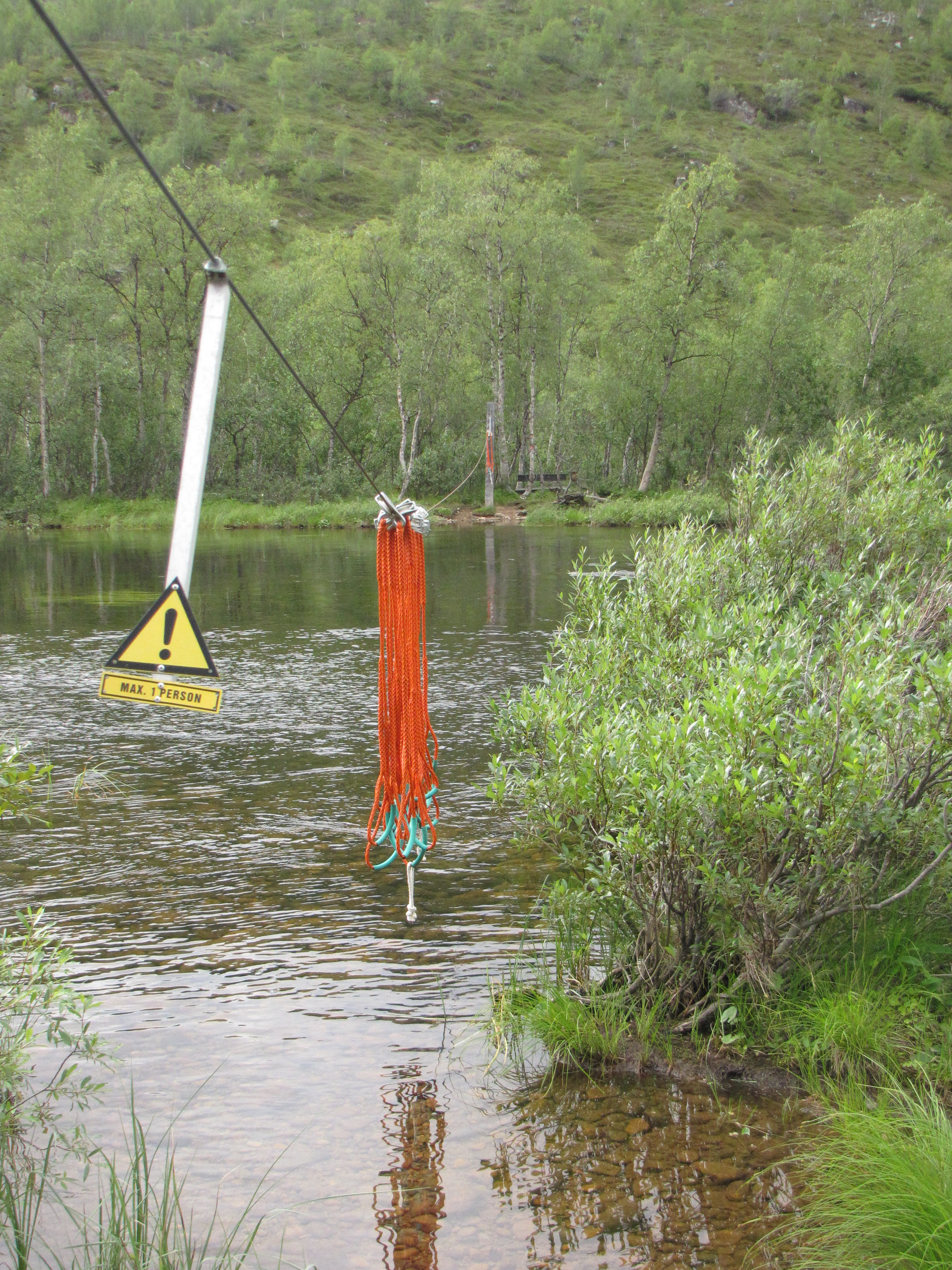 you have to paddle here